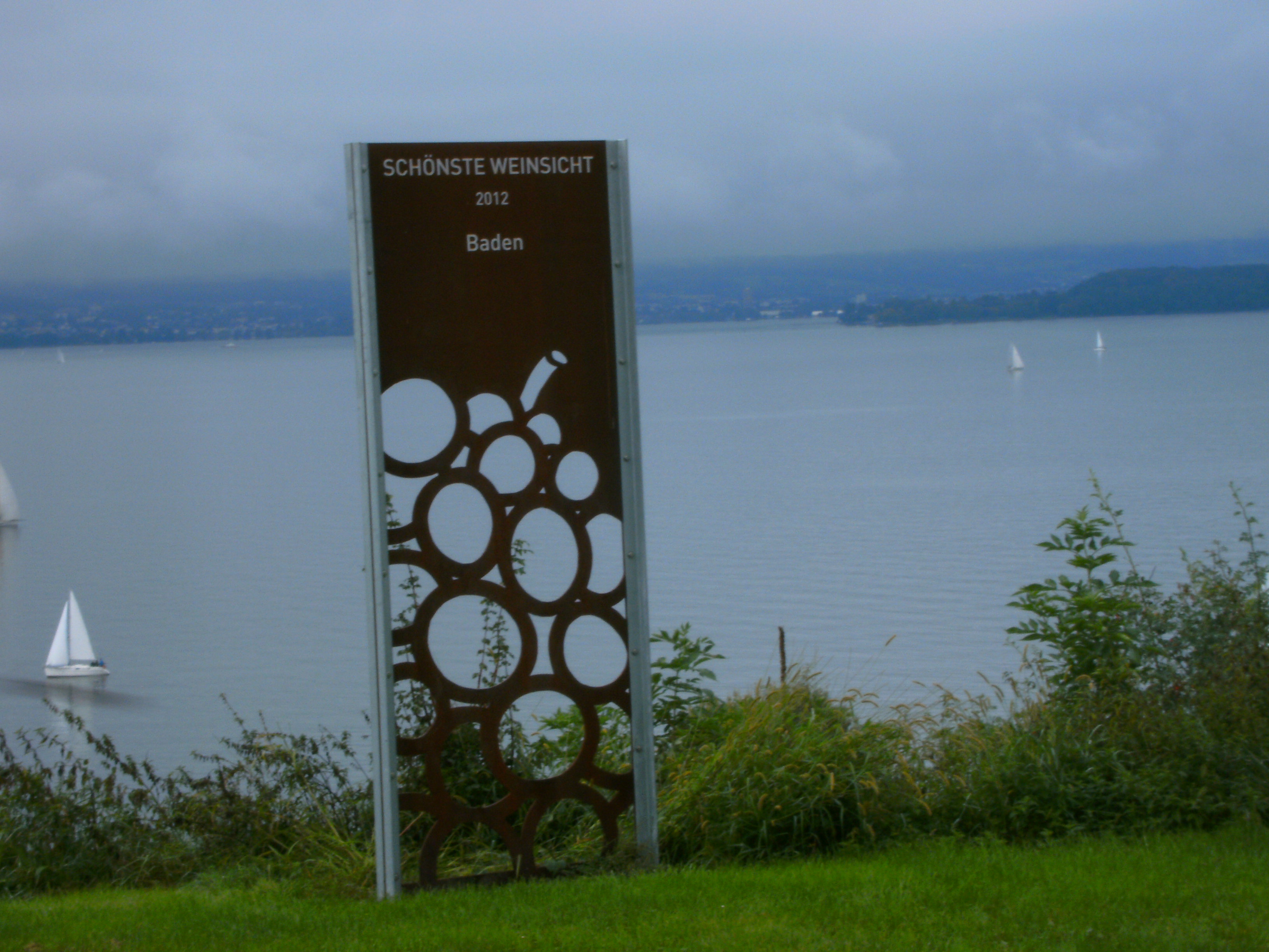 German Military cemetery at Meersburg-Lerchenberg in Germany surrounded by wineyards and with splendid view over the Lake Constance towards Switzerland and Constance. The place in front of the cemetery towards the wineyard was honoured as loveliest view in 2012 from a wineyard in Baden in Baden-Württemberg, Germany.